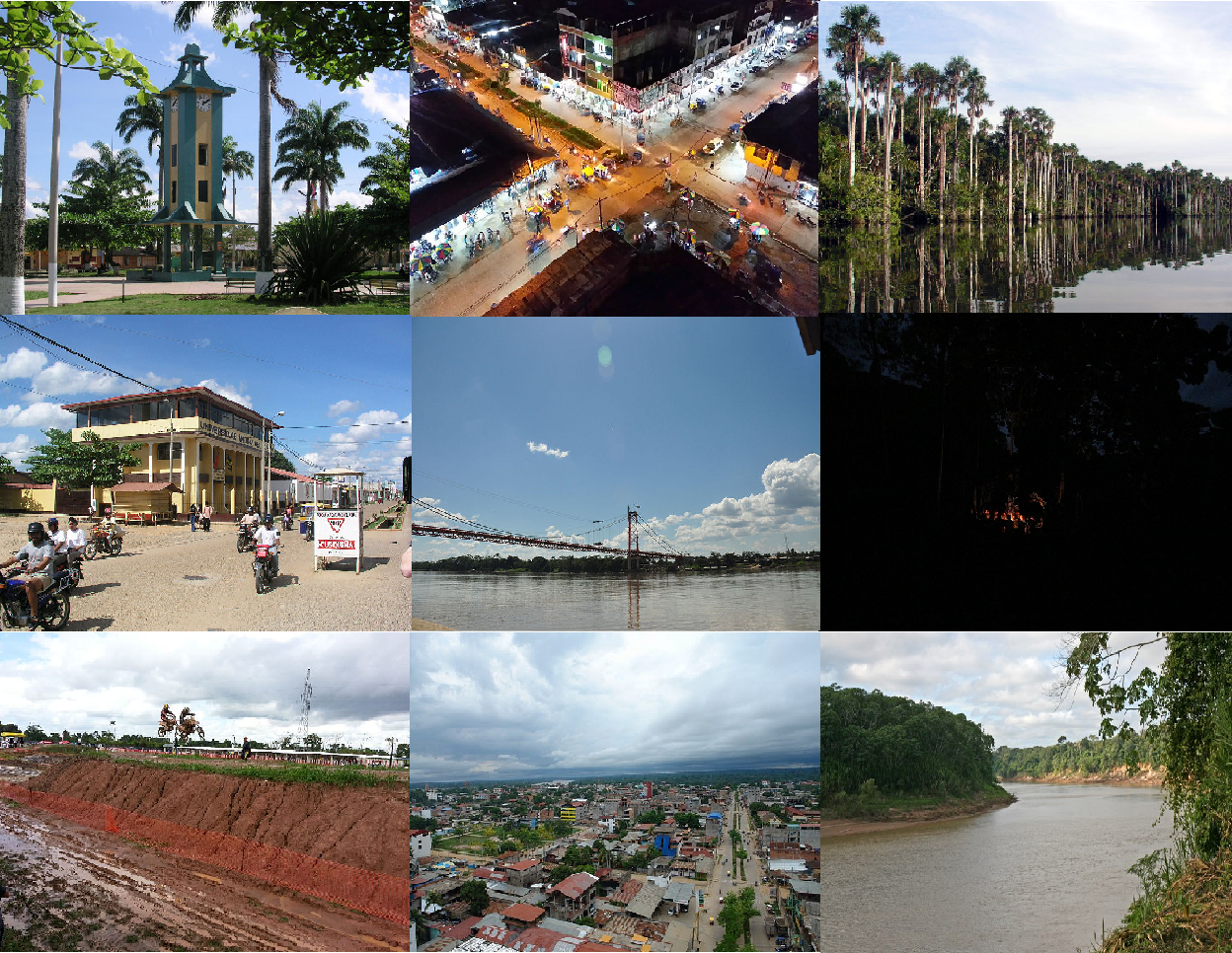 Collage P.Maldonado, city of Peru